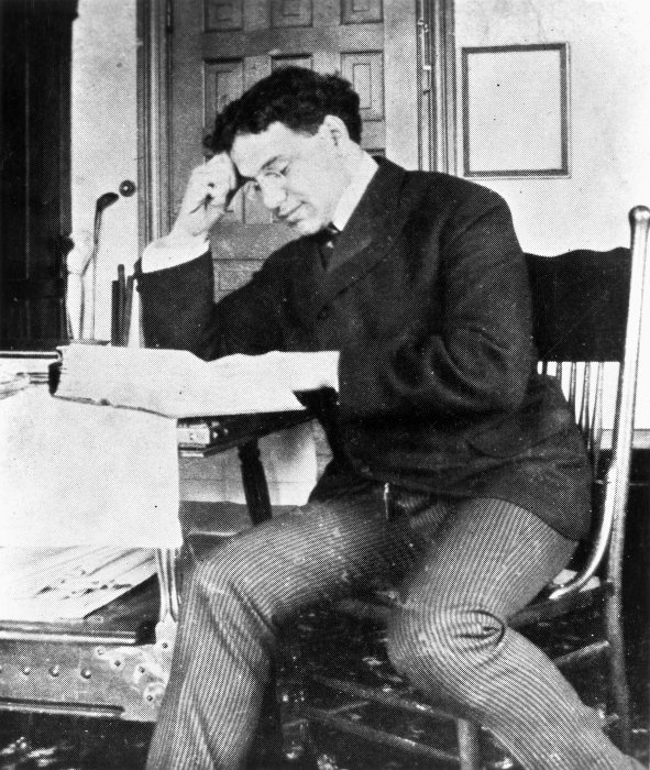 Sir Maui Wiremu Piti Naera Pomare, 1875?-1930, while a student at Battle Creek College in Michigan, USA, in 1899. Pomare was a New Zealand Politician.